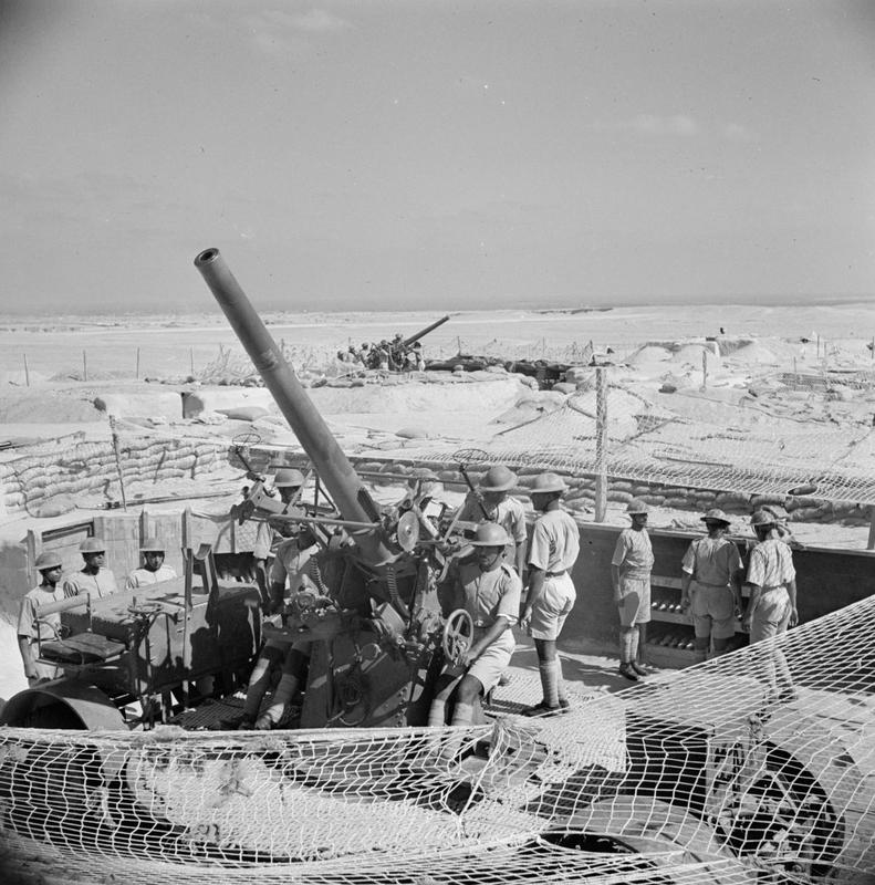 The British Army in North Africa 1942 3 inch Anti-Aircraft Gun in a well protected gun pit, Egypt, October 1942.